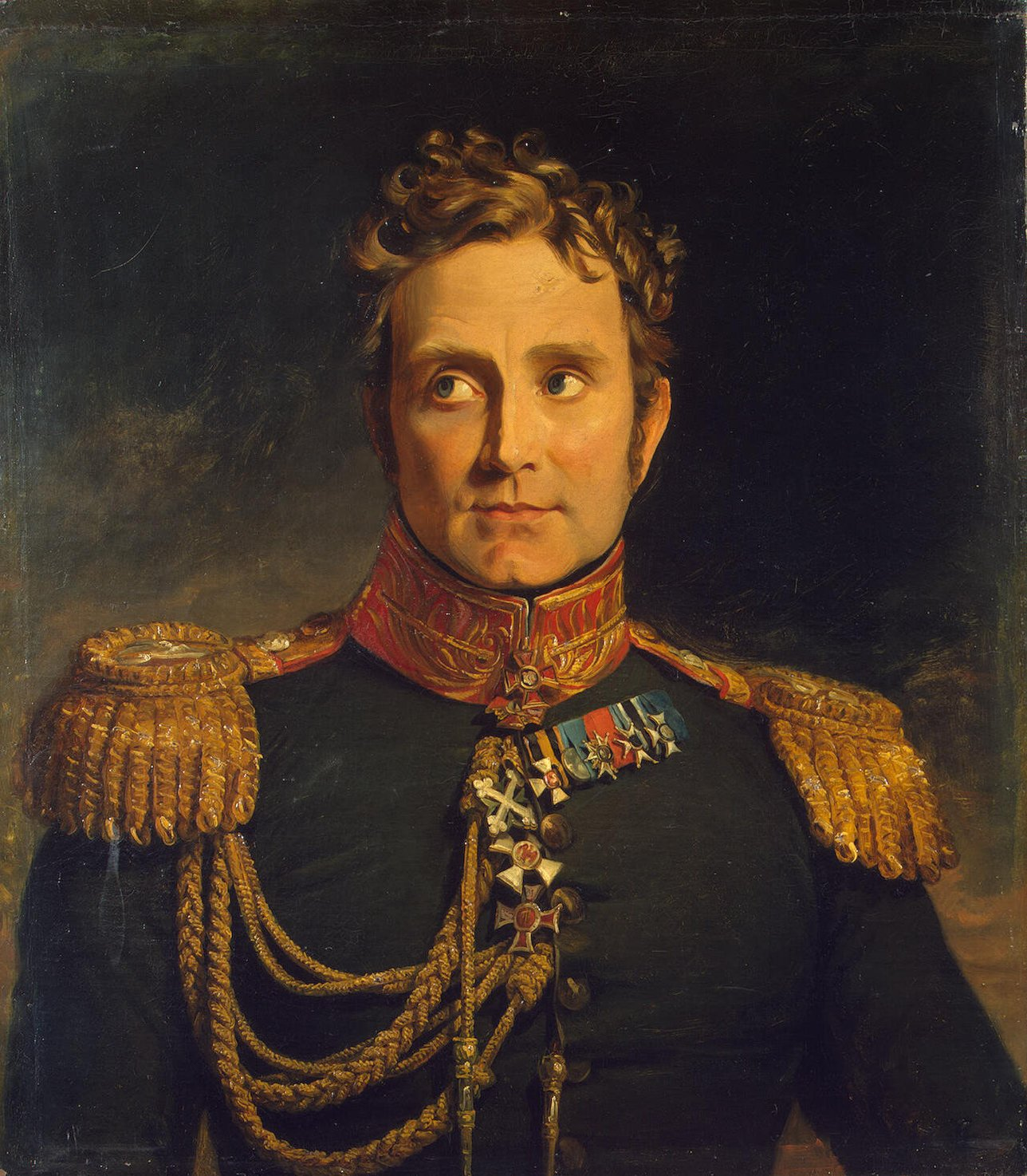 Alexandr Francevich Misho (1771 – 10.06.1841) russian general